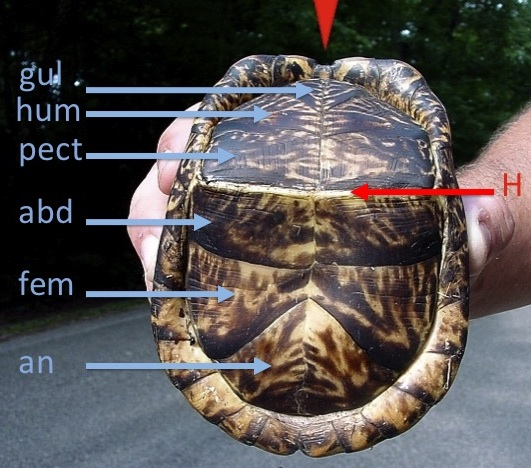 Plastron of Terrapene carolina carolina, Eastern Box Turtle, Shawnee National Forest Mississippi, Illinois, United States. Plastron hinge is indicated (H), as well as the plastral scutes: gul=gular hum=humeral pect=pectoral abd=abdominal fem=feminal an=anal